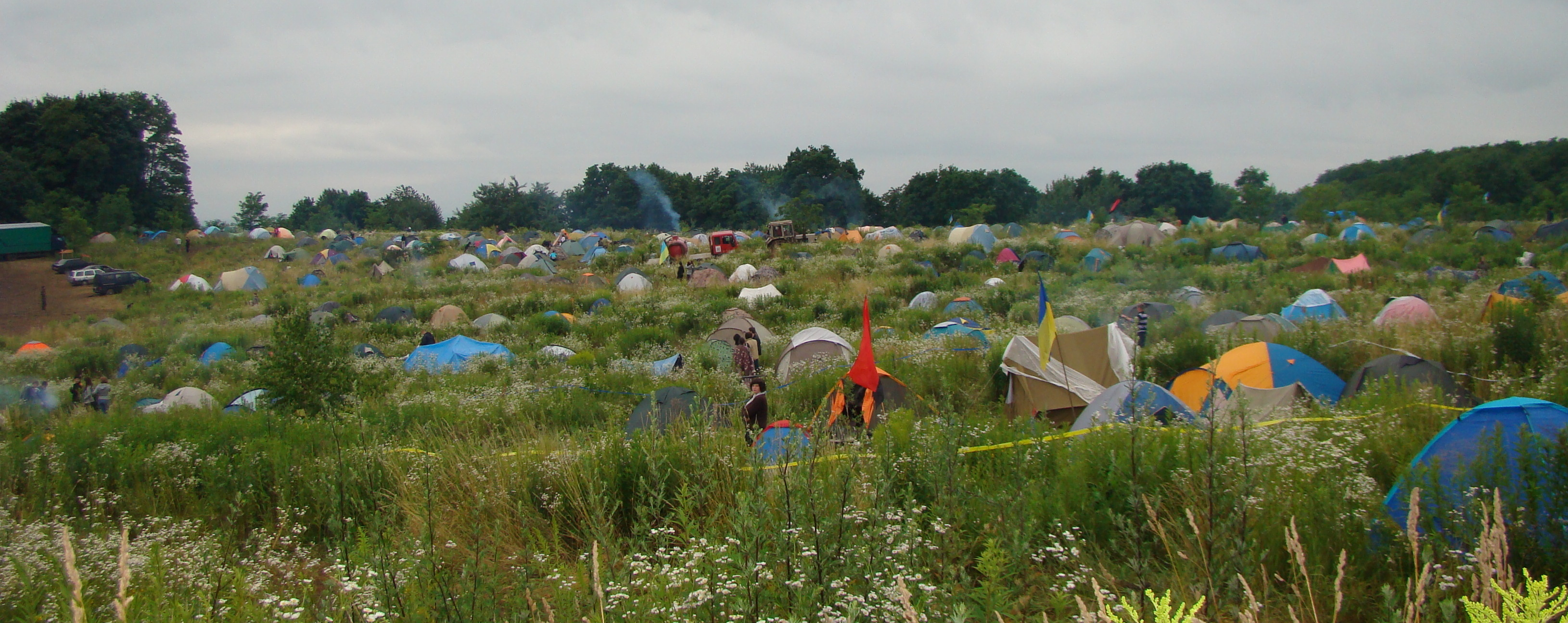 Fort.Missia Festival 2011, the elemental campground.